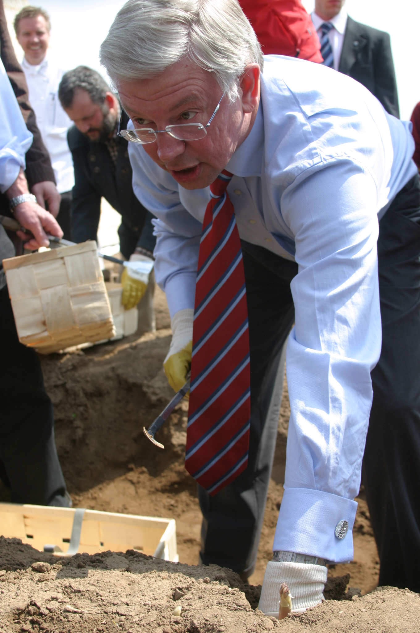 Minister-President of Hesse Roland Koch opening the Hessian season of asparagus in 2006.